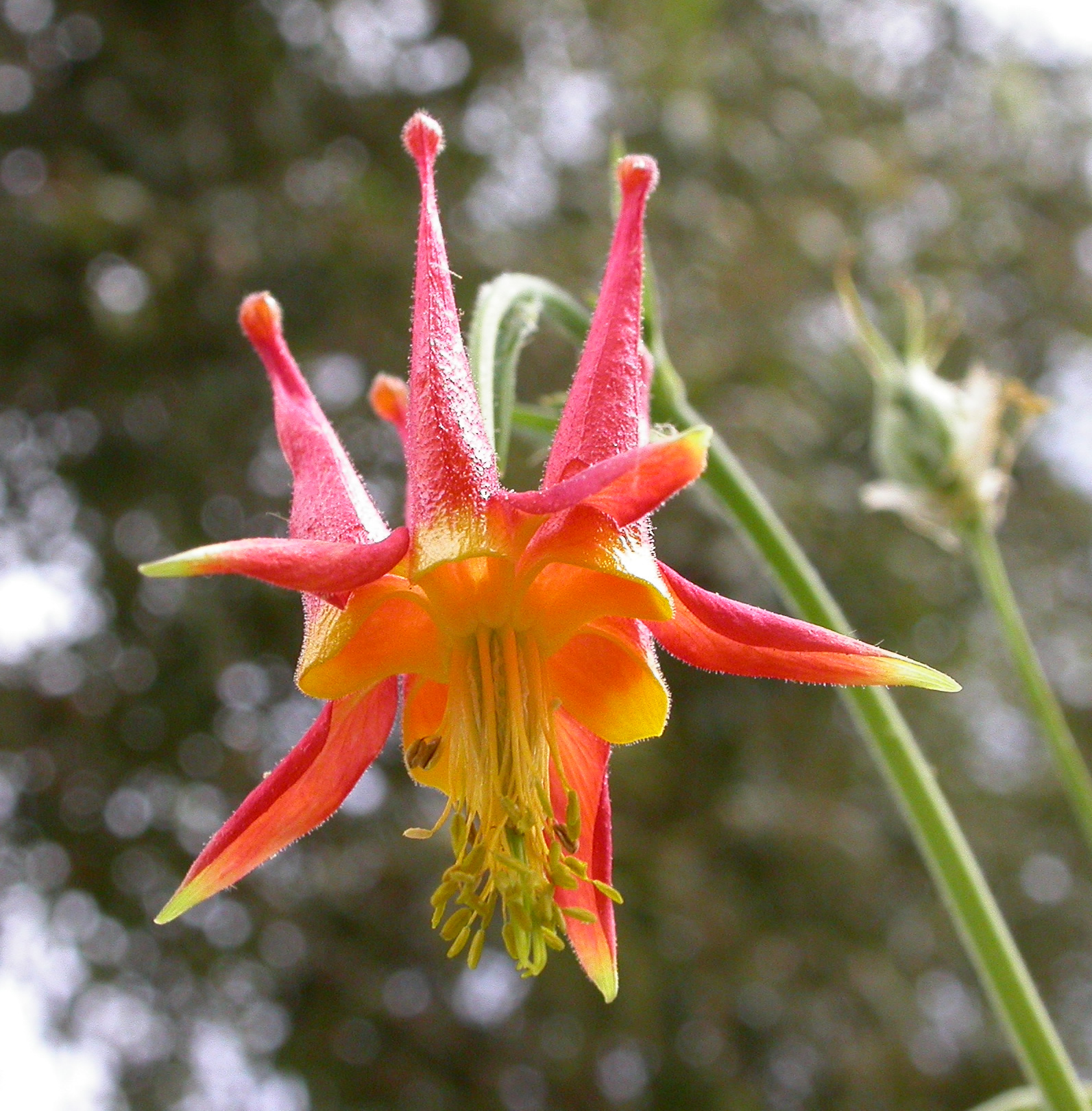 Aquilegia formosa Photographed at BioTrek. Contributed and © by Curtis Clark. Licensed as noted.